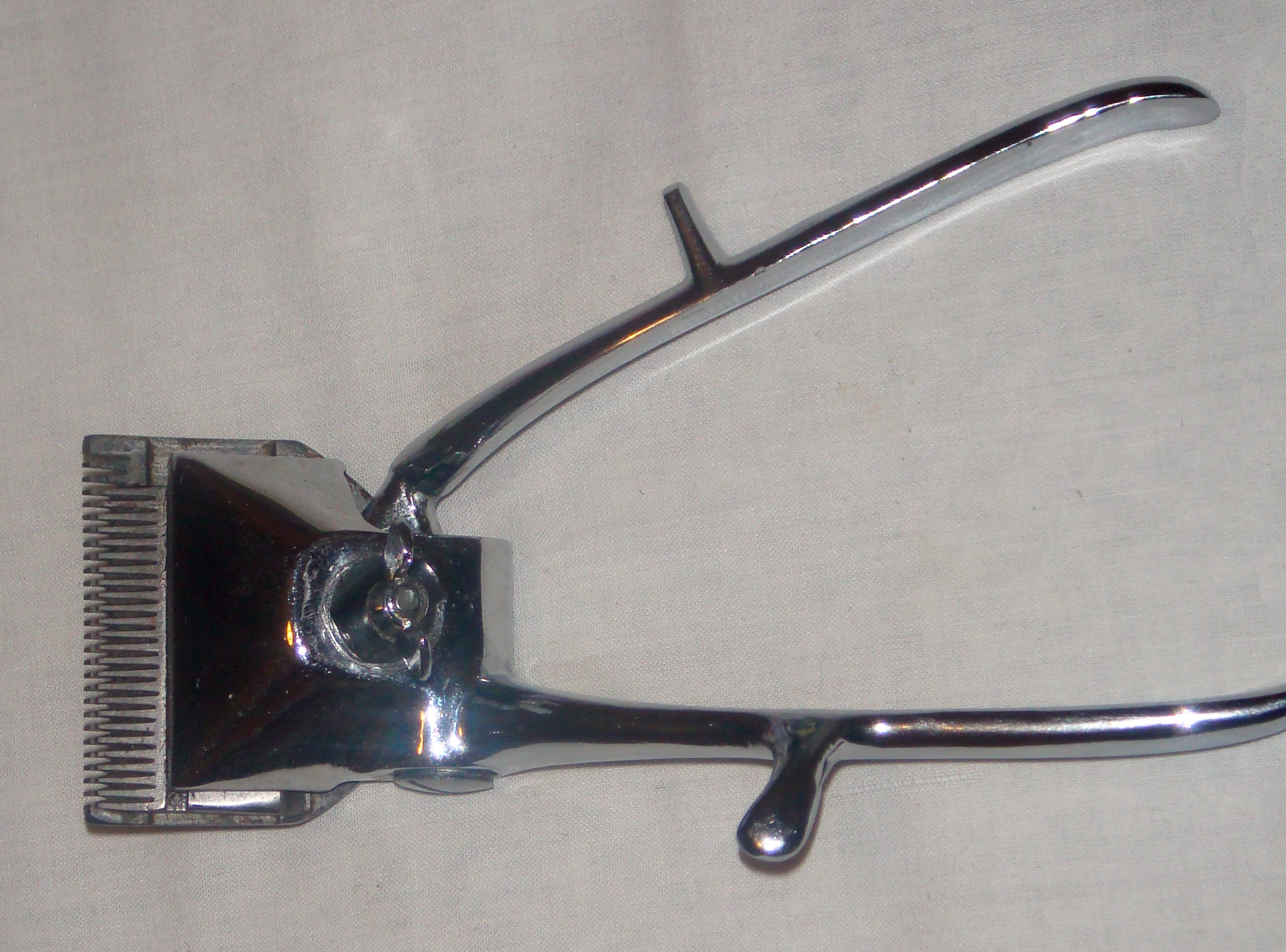 A pair of manual barber clippers, used for cutting hair too short.